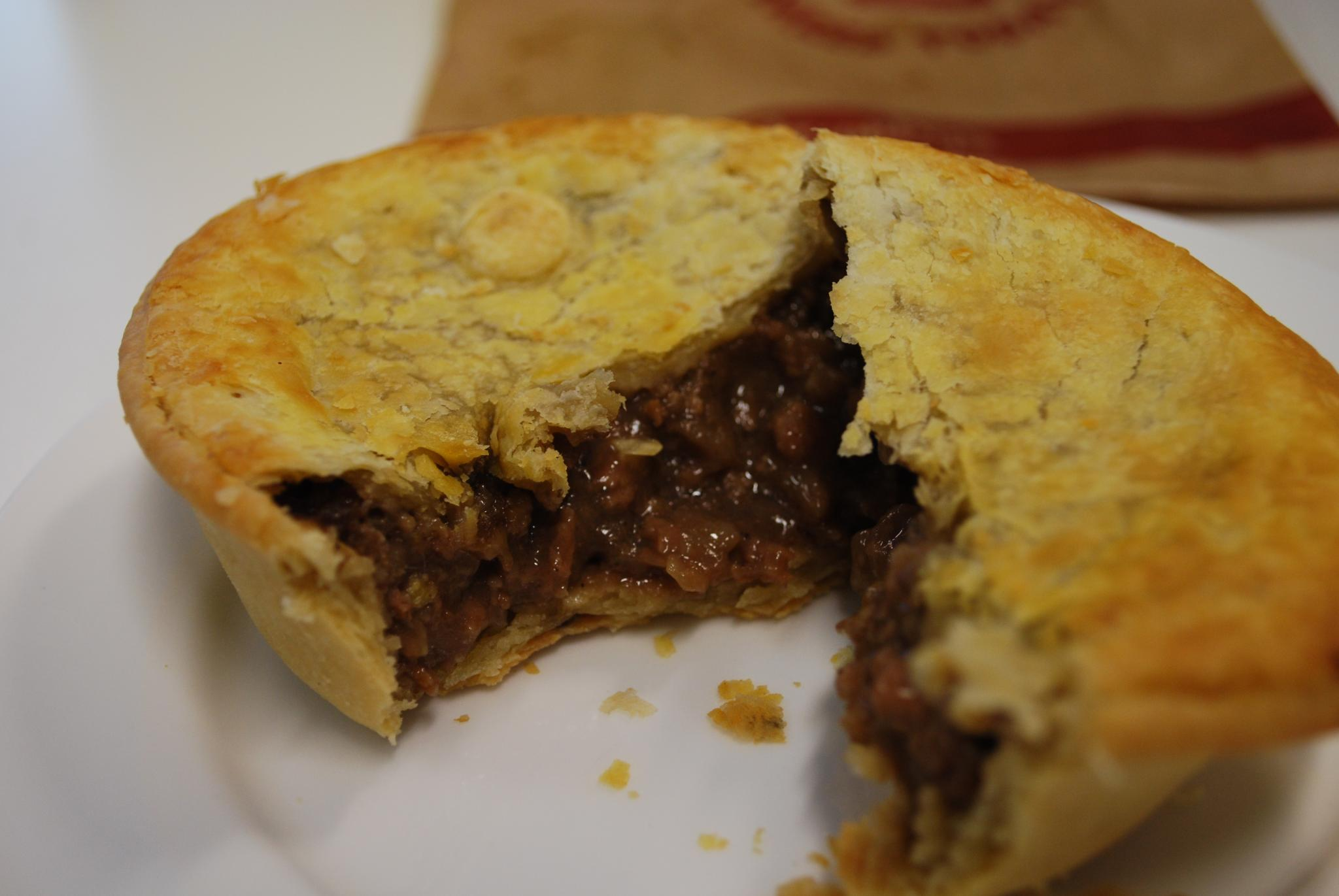 A steak pie is a traditional meat pie served in the United Kingdom and other Commonwealth countries, notably Australia. It is made from stewing steak and beef gravy, enclosed in a pastry shell. This example adds onions.